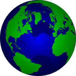 The earth (orthographic projection centered on 40° N, 40° W)